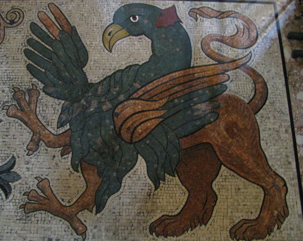 Mosaic floor in St. Mark's Basilica